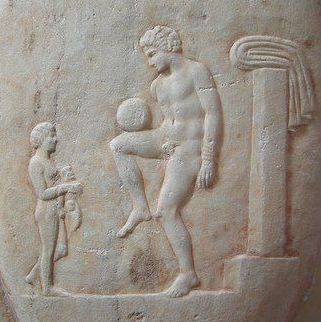 Ancient Greek football player balancing the ball. Part of a marble grave stele, found in Piraeus, 400-375 BC. Item (NAMA) 873 of the National Archaeological Museum, Athens. Part of a grave stele, made of pentelic marble. It was found in Piraeus. Only part of the shaft of the stele survives, adorned by a relief loutrophoros. The figure of a nude youth practicing with a ball in the palaestra is depicted in low relief on the belly of the vase. His folded himation can be seen on a pillar behind him. The youth is watched by his young servant holding an aryballos and a strigil.